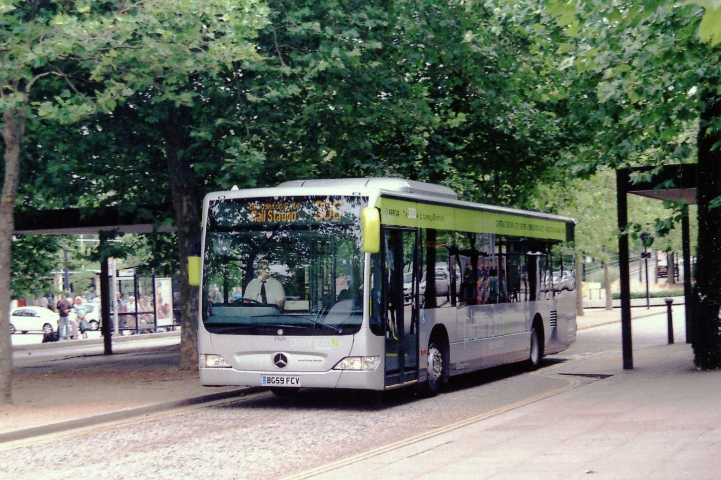 An Arriva Shires & Essex bus on route 300 in Central Milton Keynes, Buckinghamshire, in July 2010. The bus is a Mercedes-Benz Citaro, registration mark BG59 FCV, fleet number 3926, in silver and green livery dedicated to route 300.